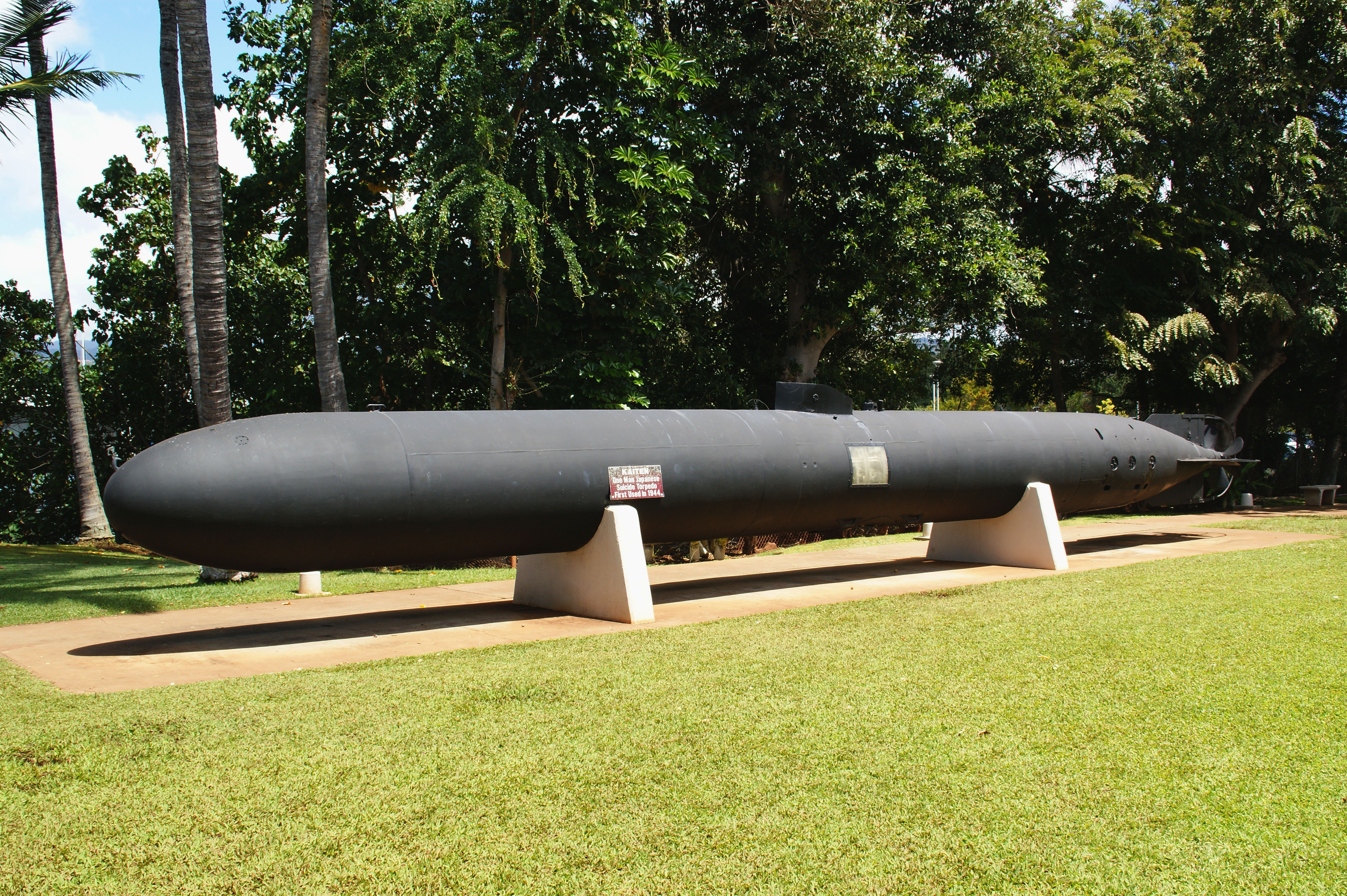 Type 4 Kaiten, on display at USS Bowfin Submarine Museum and Park- side view